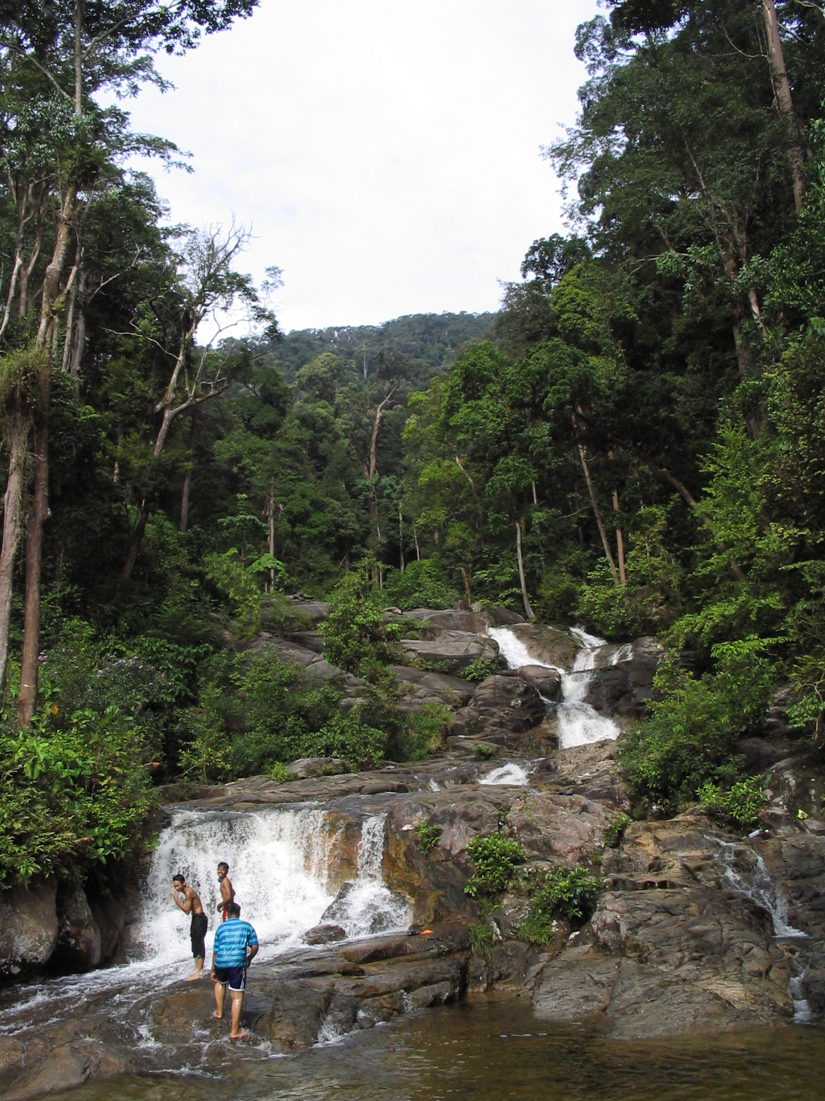 Waterfall of Mount Ophir